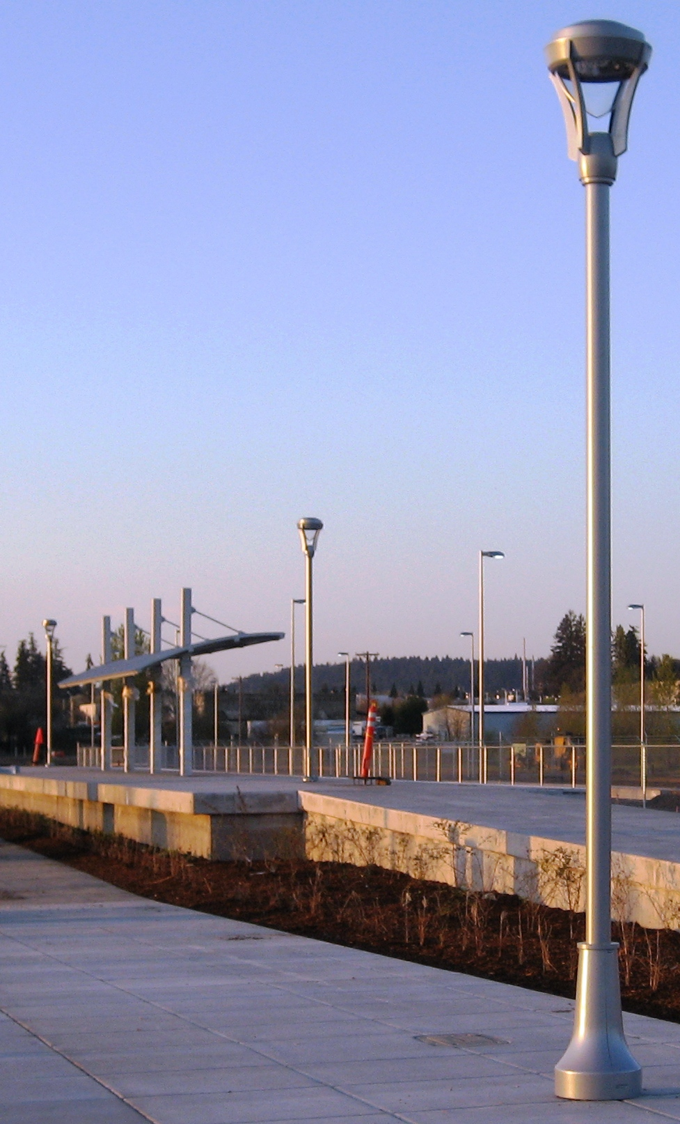 WES station in Wilsonville, Oregon, before completion of construction